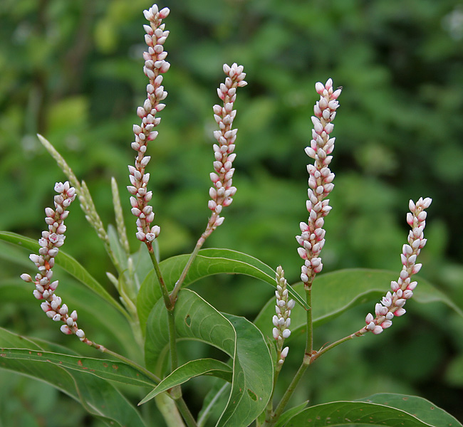 Denseflower Knotweed, Common marsh buckwheat Persicaria glabra in Narsapur, Andhra Pradesh, India.